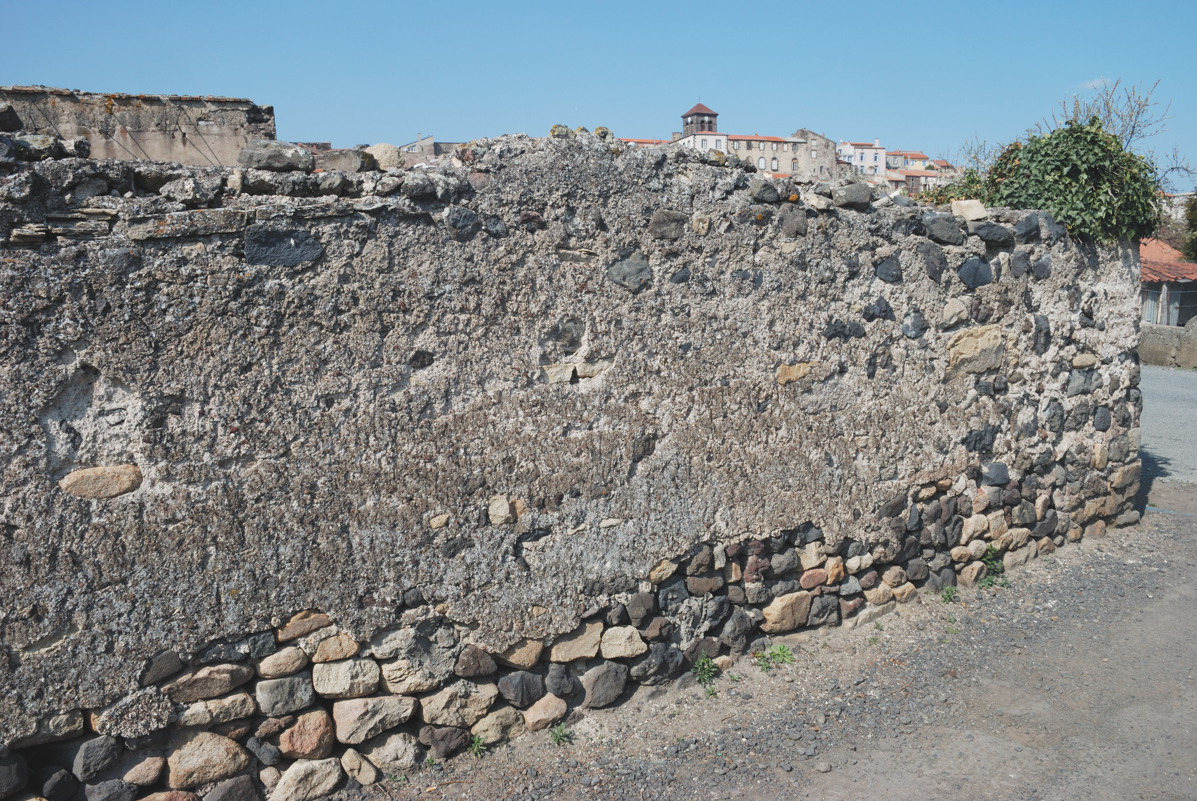 Wall with a rough-cast using lime Beaumont (Puy-de-Dôme, France).